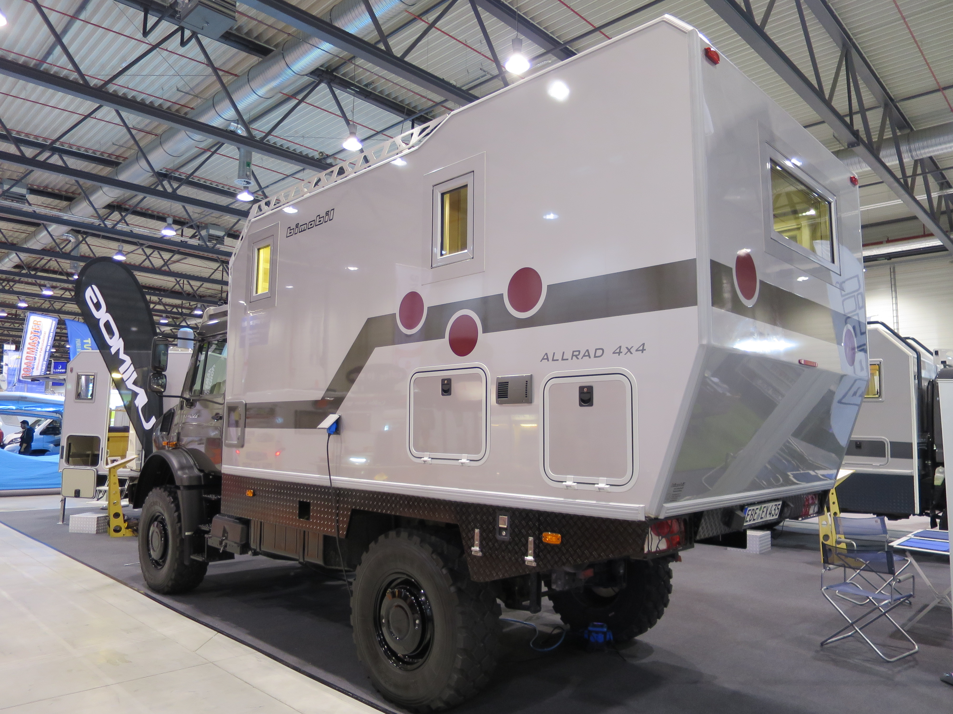 Bimobil Unimog.